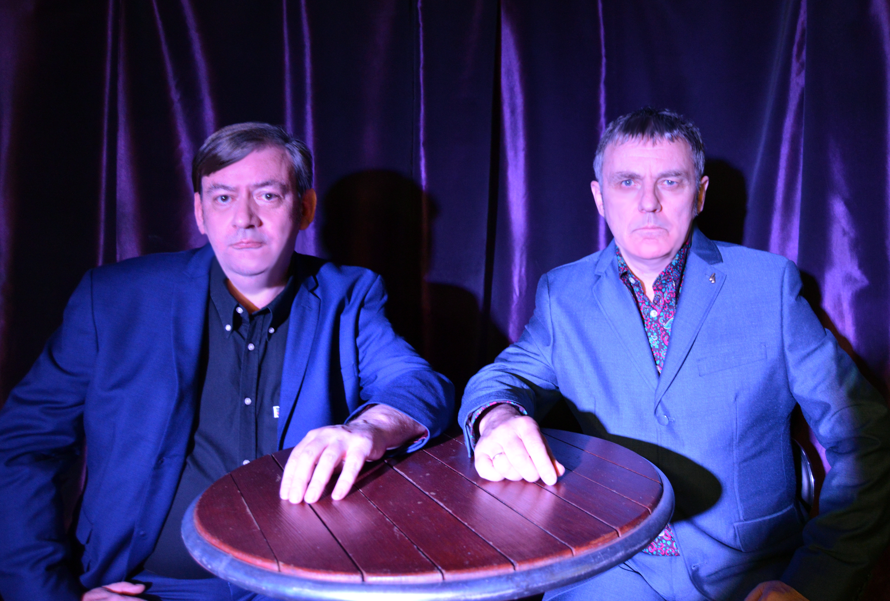 Founder members of Secret Affair Ian Page & Dave Cairns